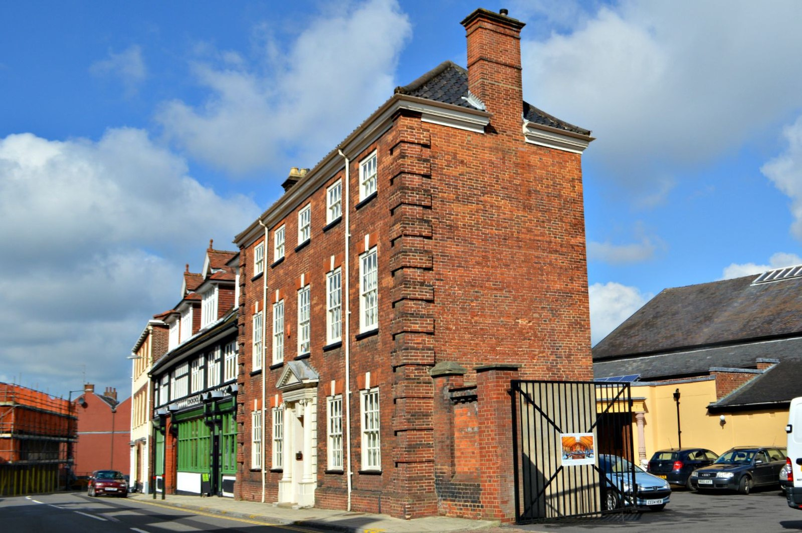 Properties on Bethel Street, Norwich